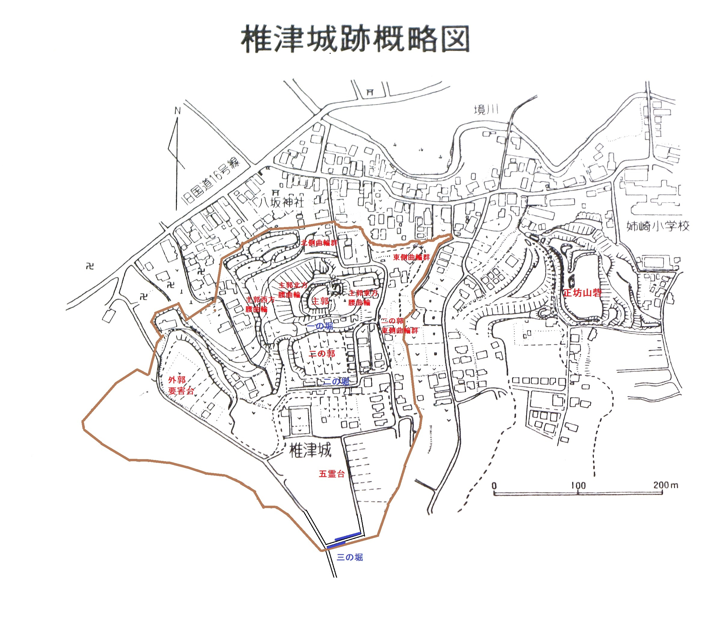 Shizu Castle schematic diagram